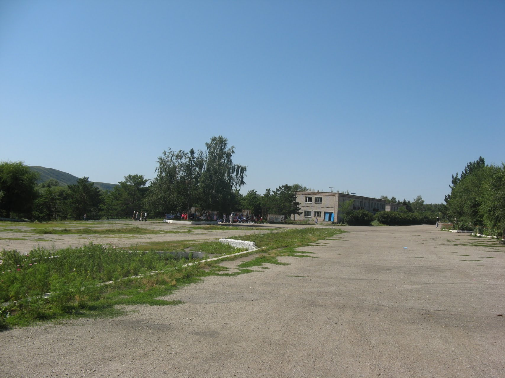 Novoshipunovo